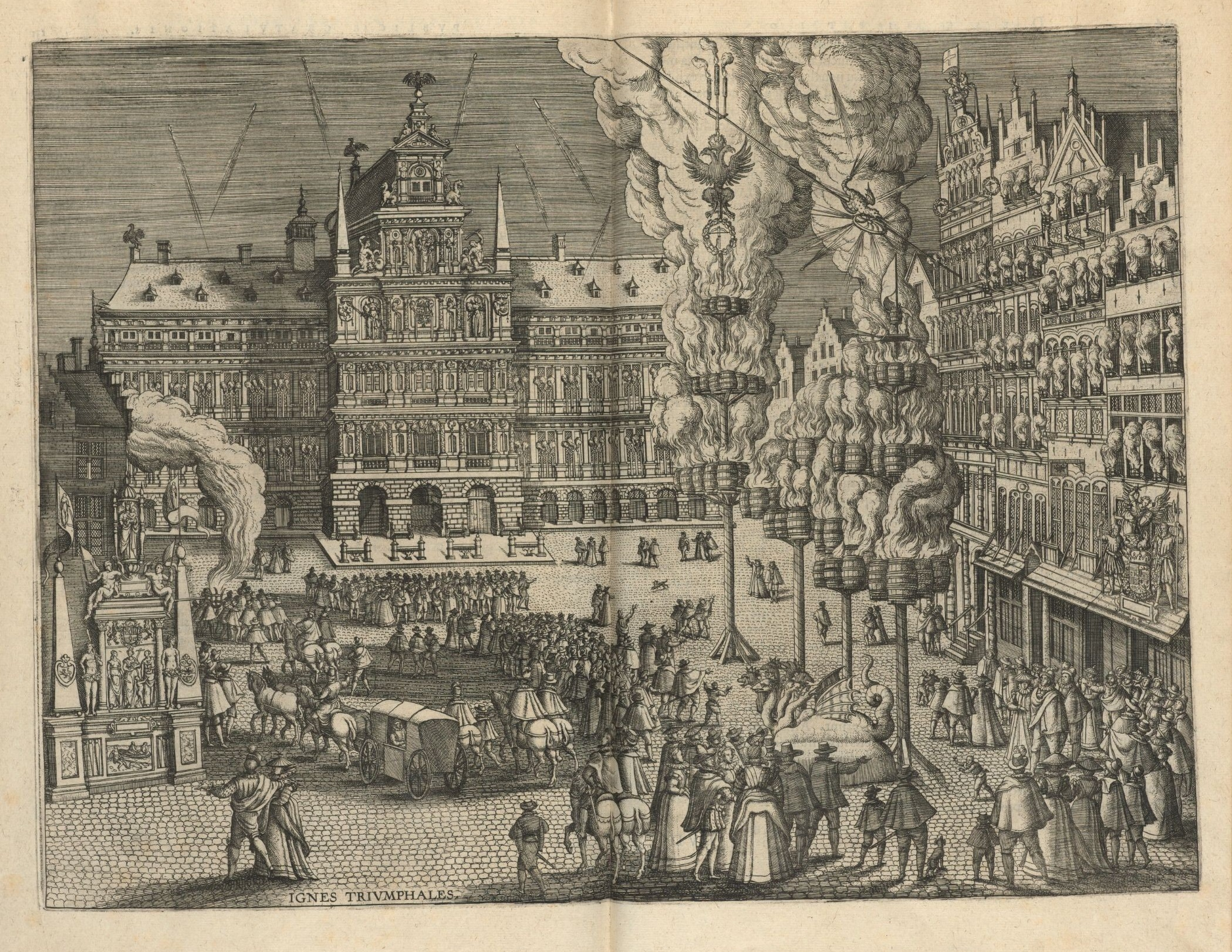 "Ignes Triumphales", Illustration from Descriptio publicae gratulationis, spectaculorum et ludorum, in aduentu Sereniss. Principis Ernesti Archiducis Austriae, Antwerp: 1595, by Joannes Bochius (1555-1609). Typ 530.95.223, Houghton Library, Harvard University